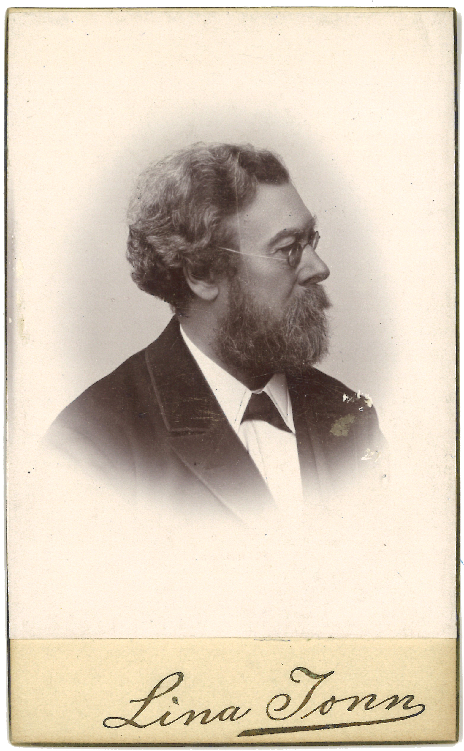 Johan Lang (1833-1902), Swedish chemist, medical scientist and professor at Lund University.